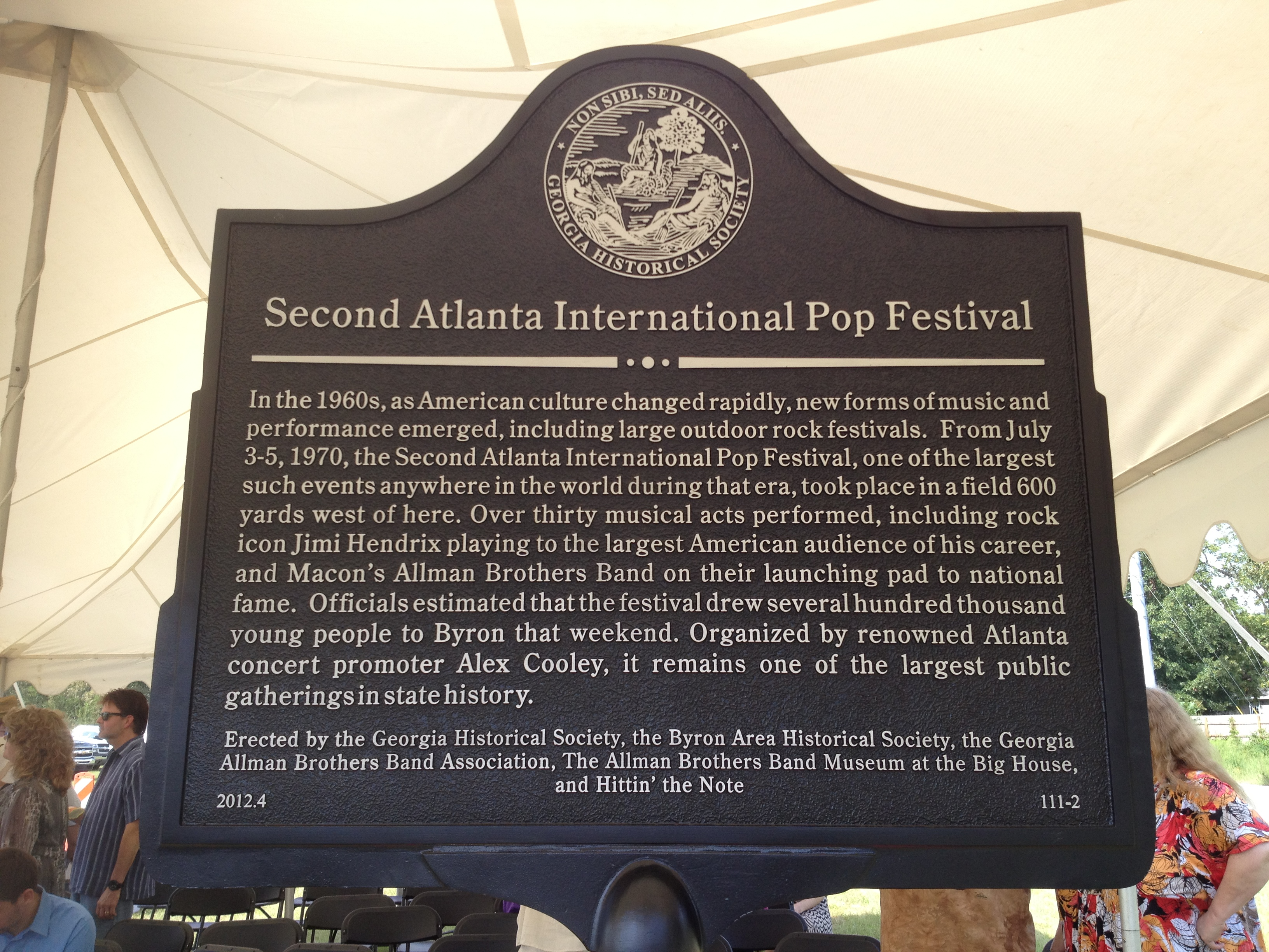 An example of a modern Georgia historical marker, erected by the Georgia Historical Society